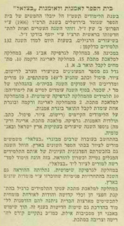 Bezalel Academy of Art celebrates 50 years